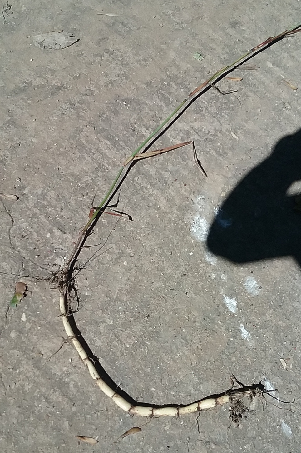 A long Rhizome of Sorghum Halepense (Johnson Grass) in Austin, Texas, USA